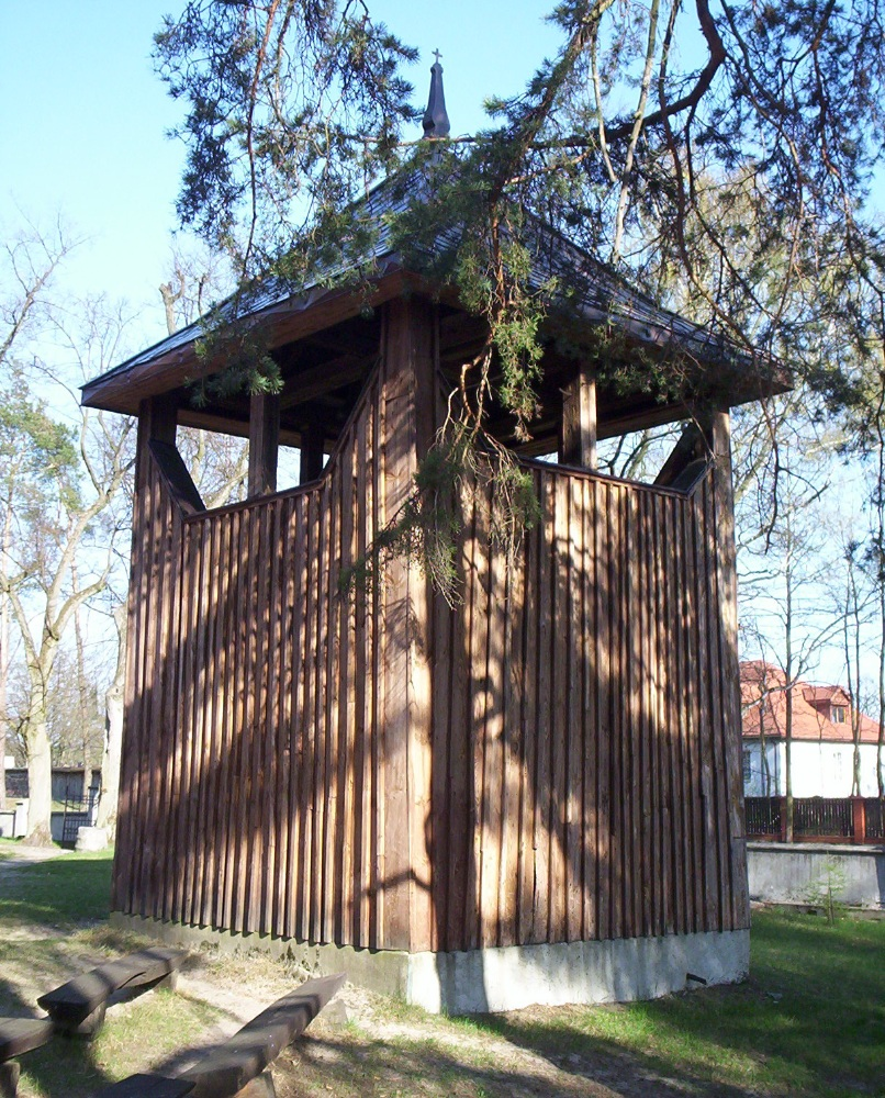 Belfry near church in Lutkówka, Poland.